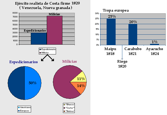 Evolution of the royalist army